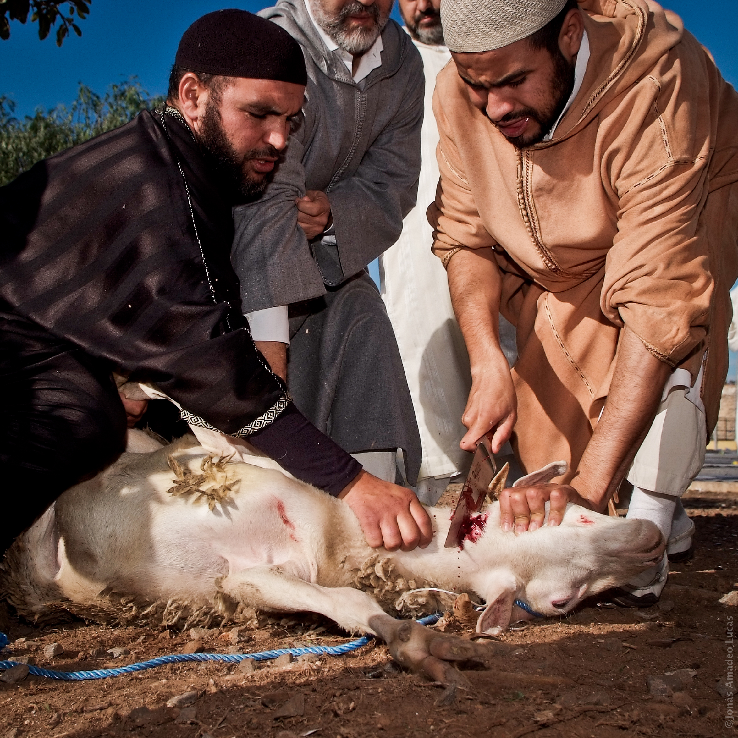 JALX12FCX01-2567 Corderos, lamb sacrifice on Id al Adha, Islamic festival of animal sacrifice, religion rites and rituals, Eid